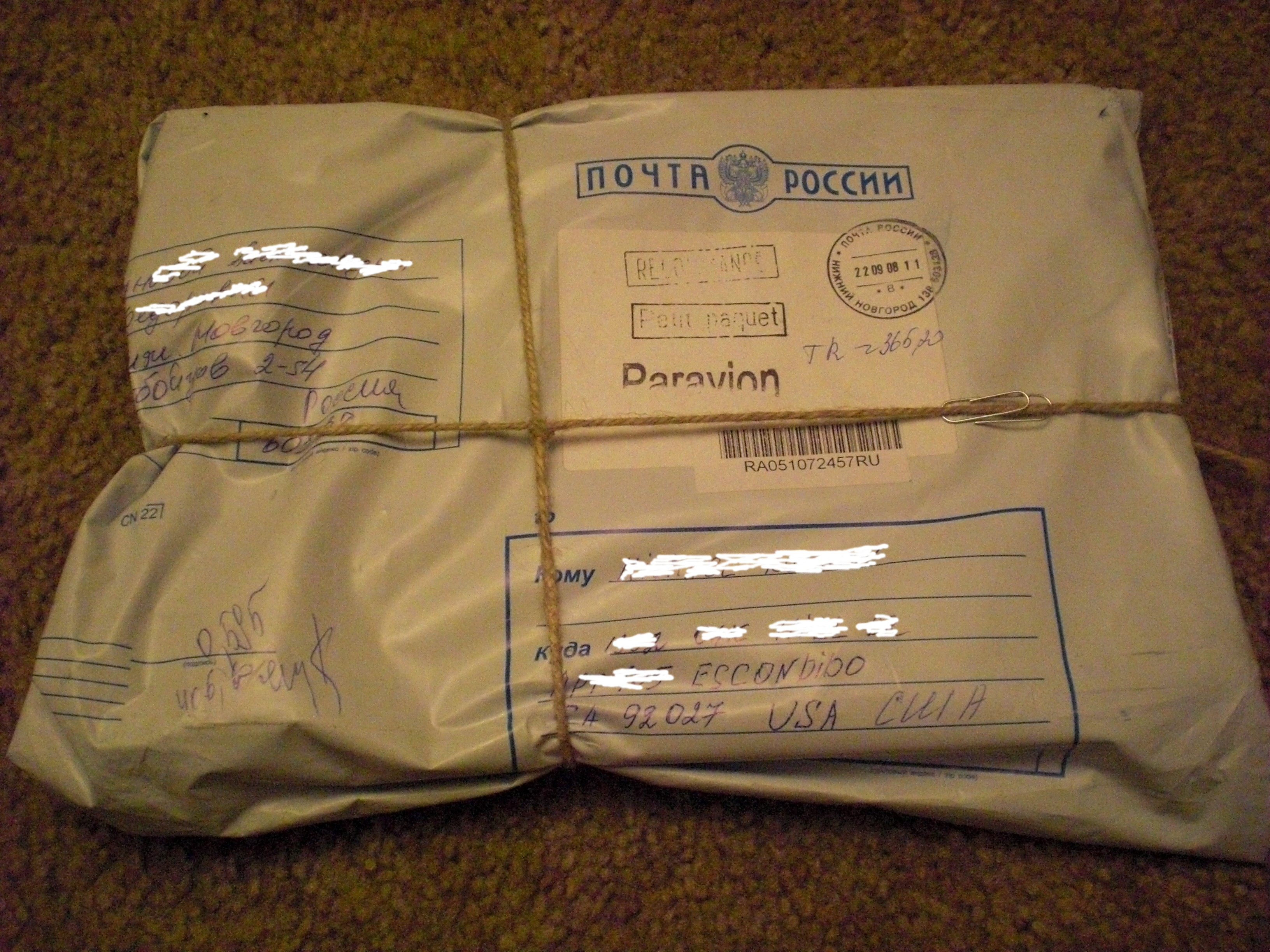 Post of Russia. Registered printed matter stamped with a 'Petit paquet' postmark